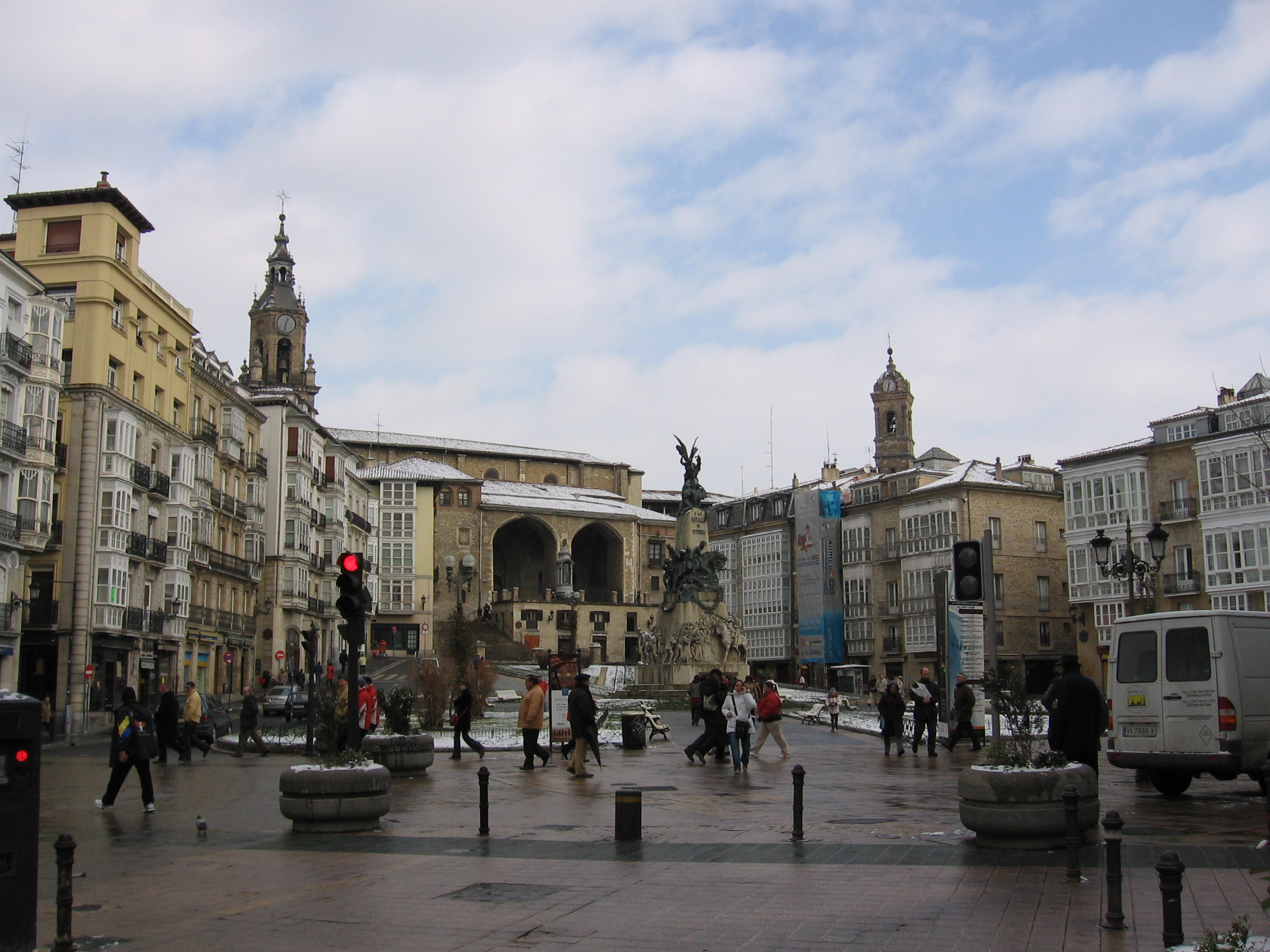 Vitoria-Gasteiz, Basque Country, Spain, Plaza de la Virgen Blanca